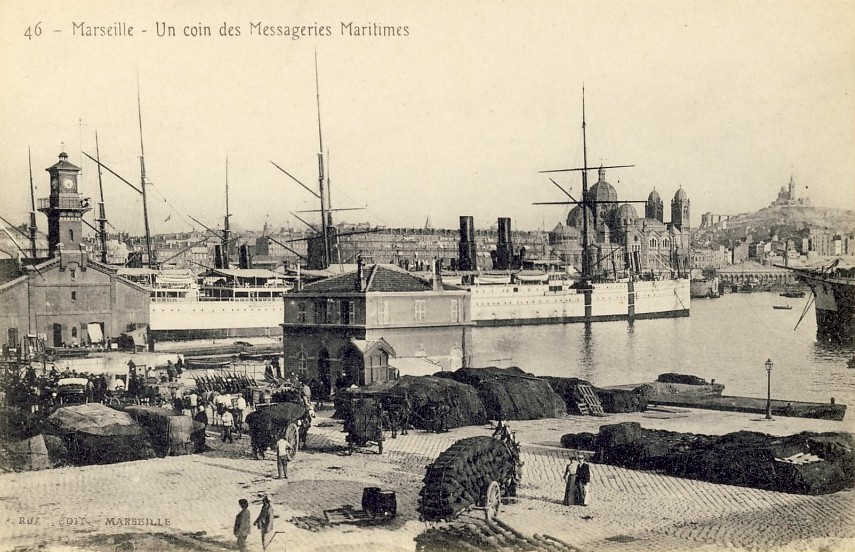 Wharf of the Messageries Maritimes at Marseille. Postcard published 1900–1910.